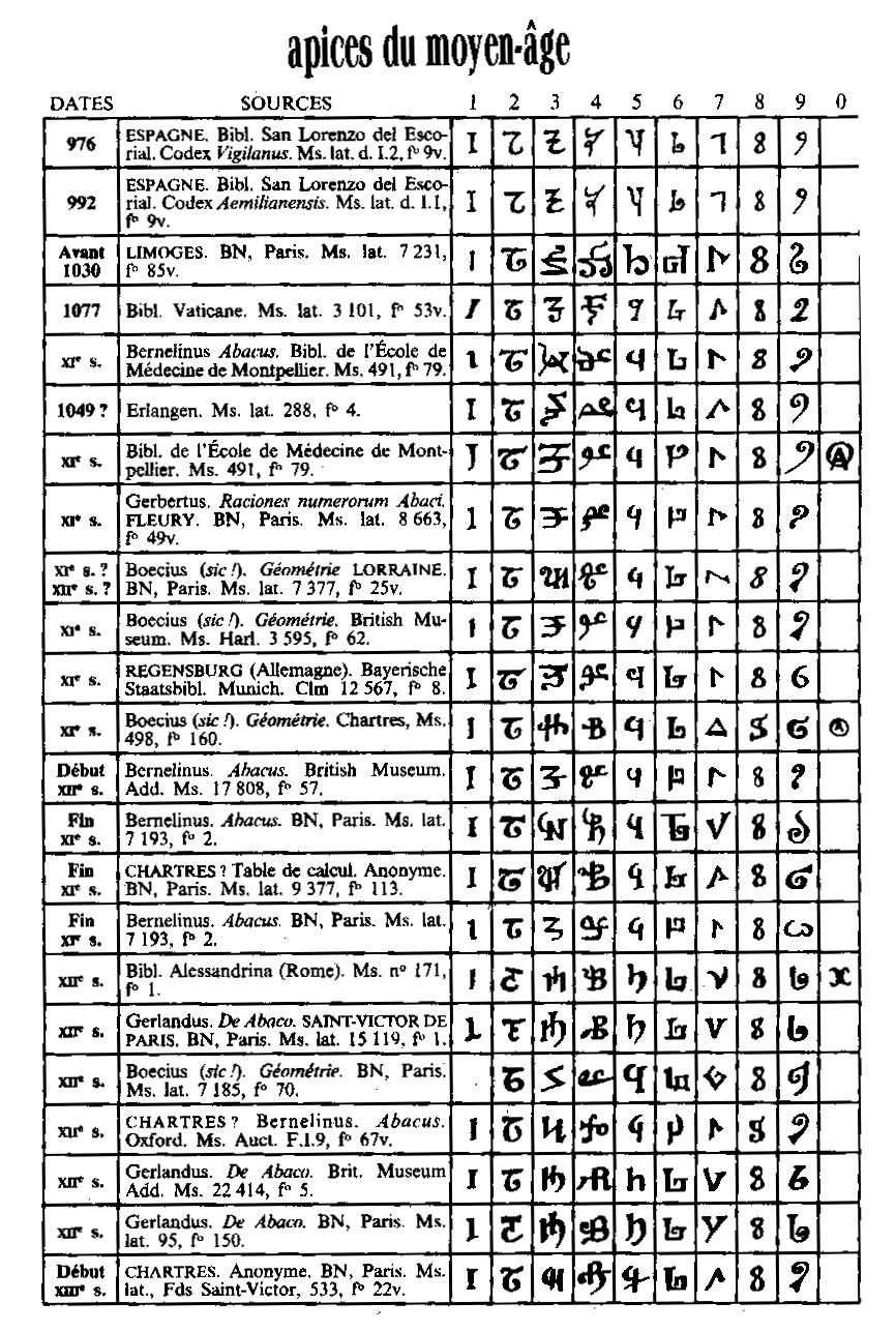 Each Apex received an individual name: 1 Igin, 2 Andras, 3 Ormis, 4 Arbas, 5 Quimas, 6 Caltis, 7 Zenis, 8 Temenisa, 9 Celentis. The etymology remains unclear, though some names were clearly Arab numbers. The Arabic figures reported by Gerber were reproduced almost everywhere with the greatest fantasy, as evidenced by various examples compared to the model's initial figure 4 (form imported by the Arabs at the end of the tenth century).